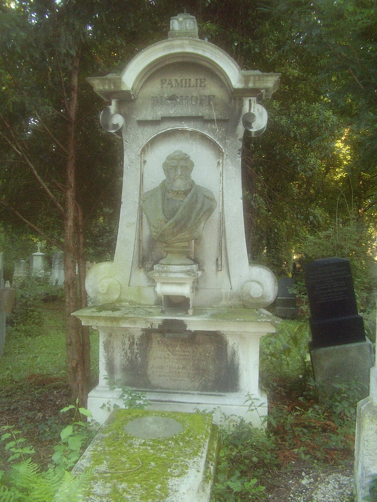 family grave of Theodor Ludwig Wilhelm Bischoff